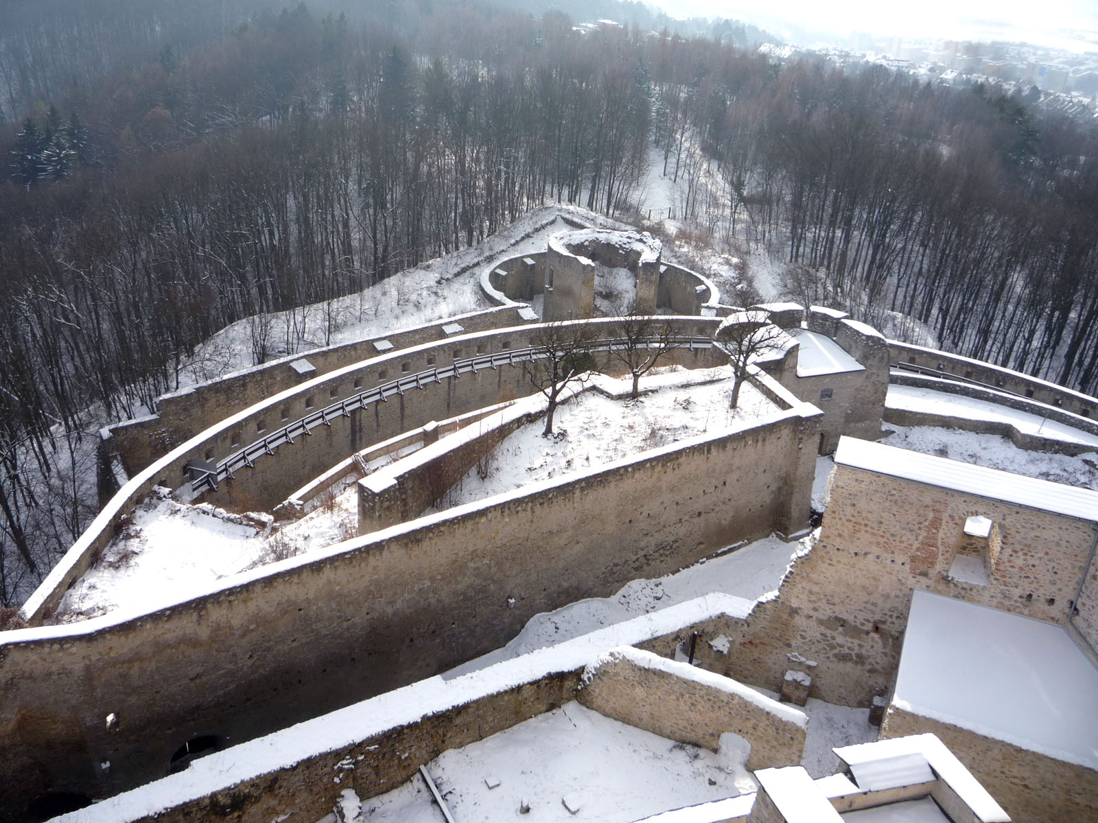 The panorama of Trenchin Castle's south fortification was made from castle's tower